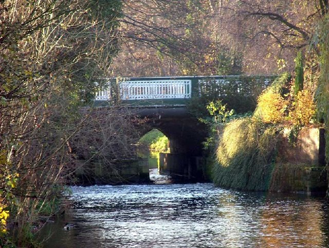 Bridgegate Retford. This bridge joins East and West Retford